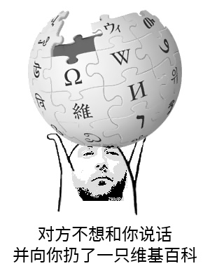 A Wikipedia spin on the "Biaoqing Bao" (表情包，lit. "sticker pack") images. Jimmy Wales is pictured as the subject in black and white. Caption translates to, "the person refuses to talk back and throws Wikipedia at you", i.e. RTFW.